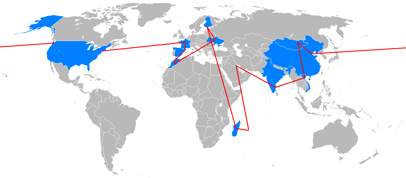 The Amazing Race 10 route map. Aeron Valderrama's map from wikipedia